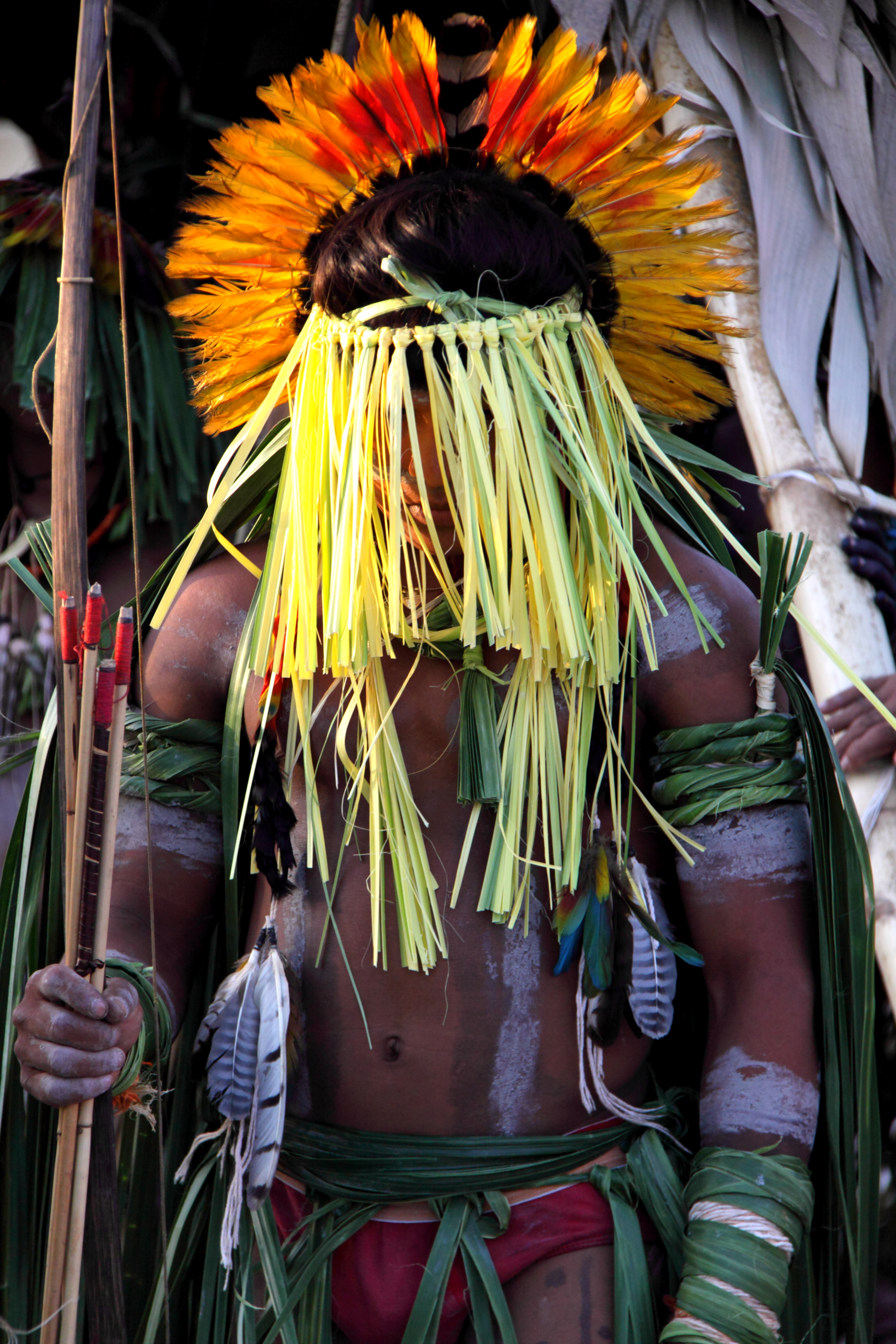 Indian from south America, Enawene-Nawe from Mato Grosso province, Brasil